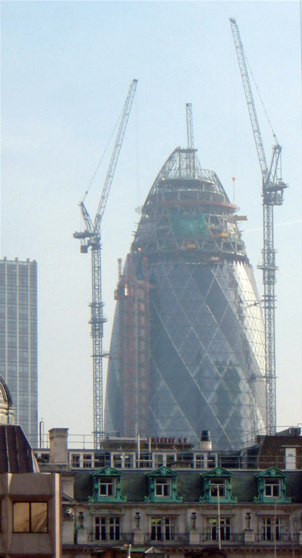 30 St Mary Axe, London - also known as the Swiss Re building or gherkin. Copied from Image:Grand-gherkin-of-the-skies-.jpg. Originally uploaded by Nevilley 23:31, 25 February 2003